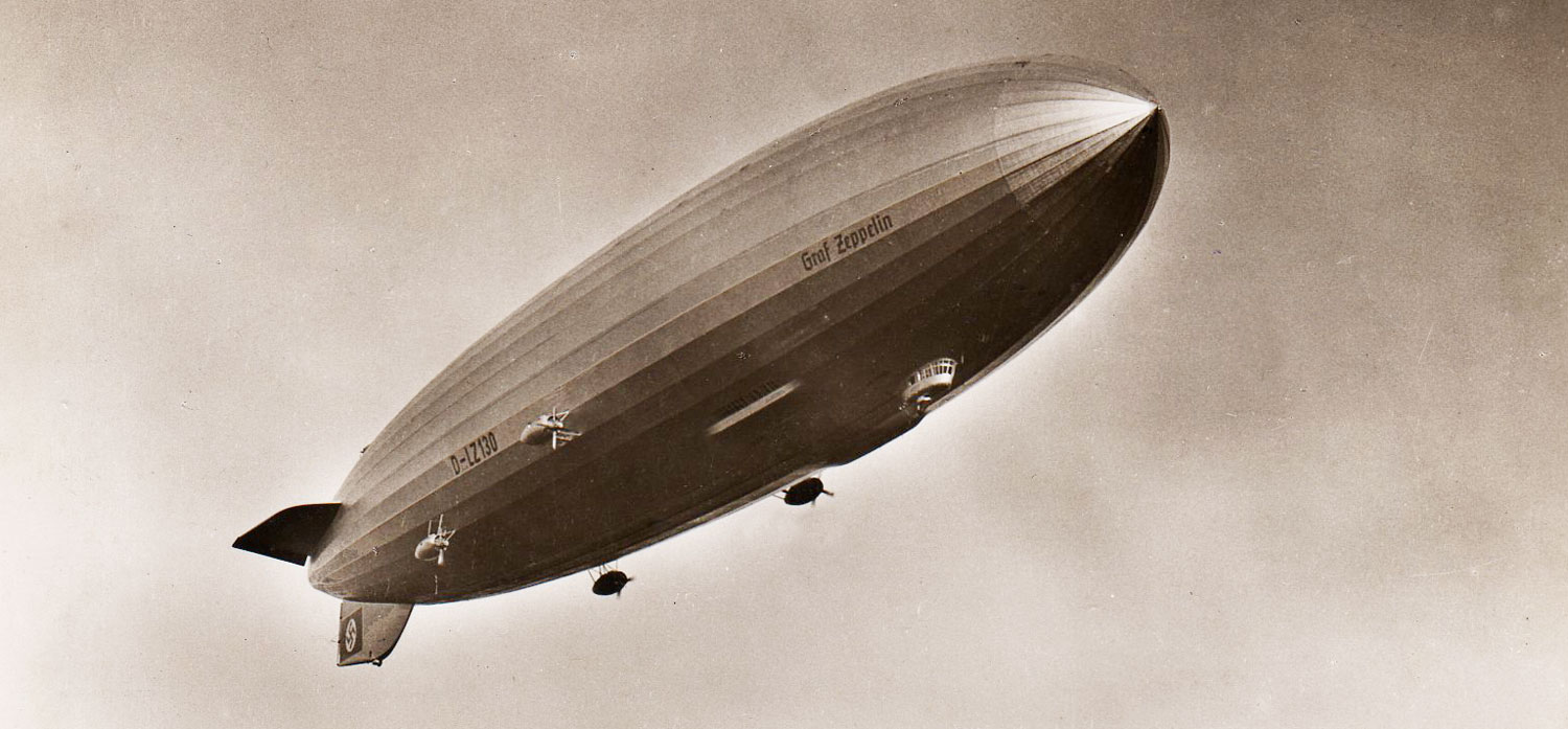 From a 1938 postcard. Legal disclaimer This image shows (or resembles) a symbol that was used by the National Socialist (NSDAP/Nazi) government of Germany or an organization closely associated to it, or another party which has been banned by the Federal Constitutional Court of Germany. The use of insignia of organizations that have been banned in Germany (like the Nazi swastika or the arrow cross) are also illegal in Austria, Hungary, Poland, Czech Republic, France, Brazil, Israel, Ukraine, Russia and other countries, depending on context. In Germany, the applicable law is paragraph 86a of the criminal code (StGB), in Poland – Art. 256 of the criminal code (Dz.U. 1997 nr 88 poz. 553).